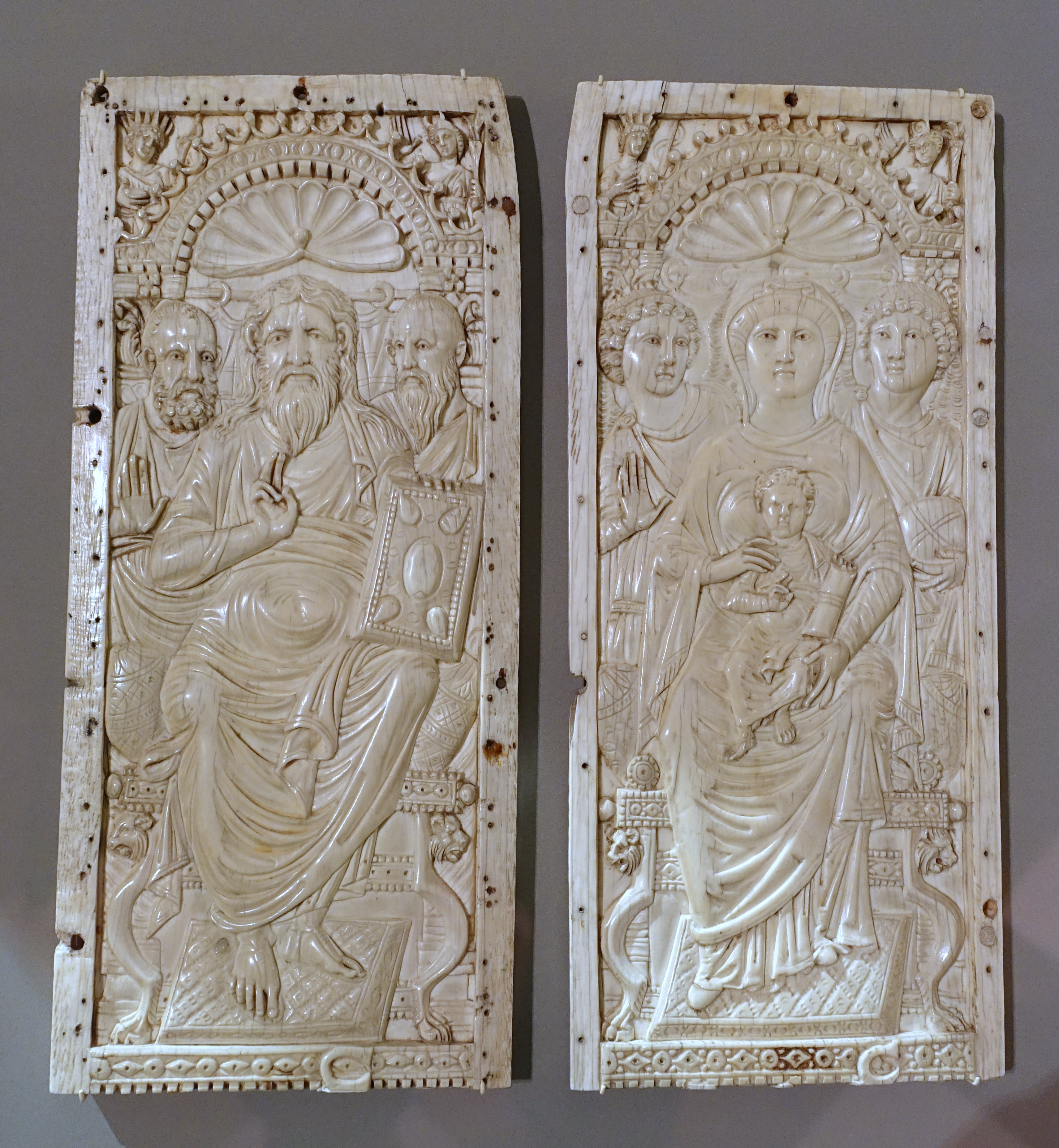 Exhibit in the Bode-Museum, Berlin, Germany. This work is in the public domain because the artist died more than 100 years ago.